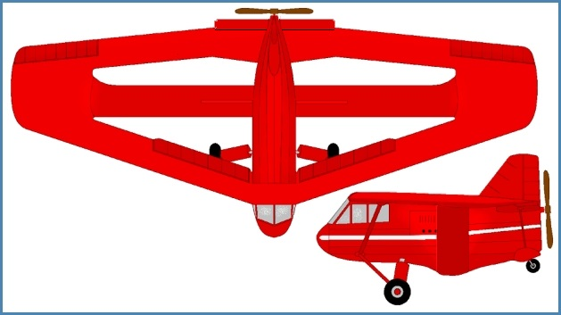 Brown SC Potatoe Bug or Diamondwing